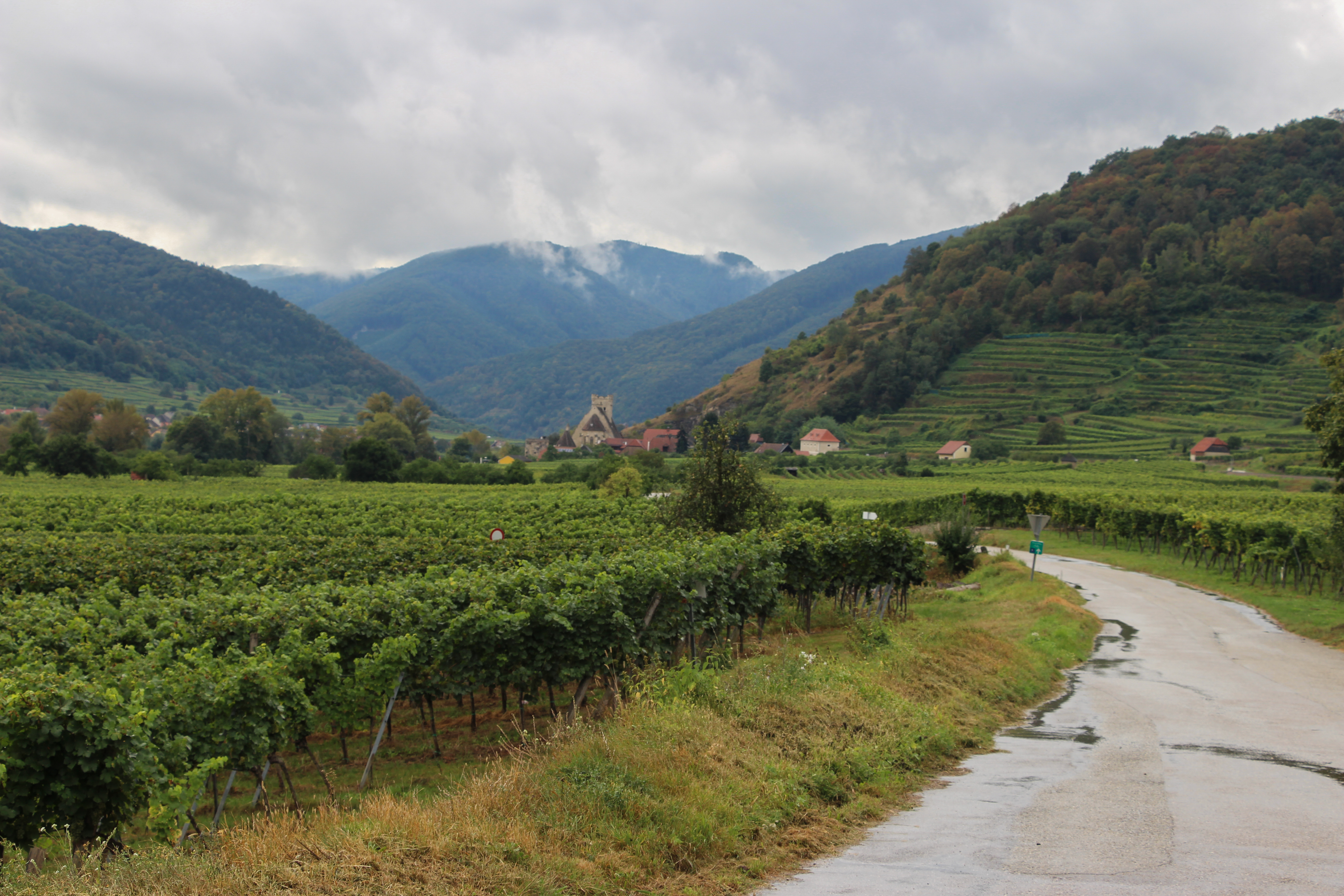 Donauradweg in Wachau Valley. Austria